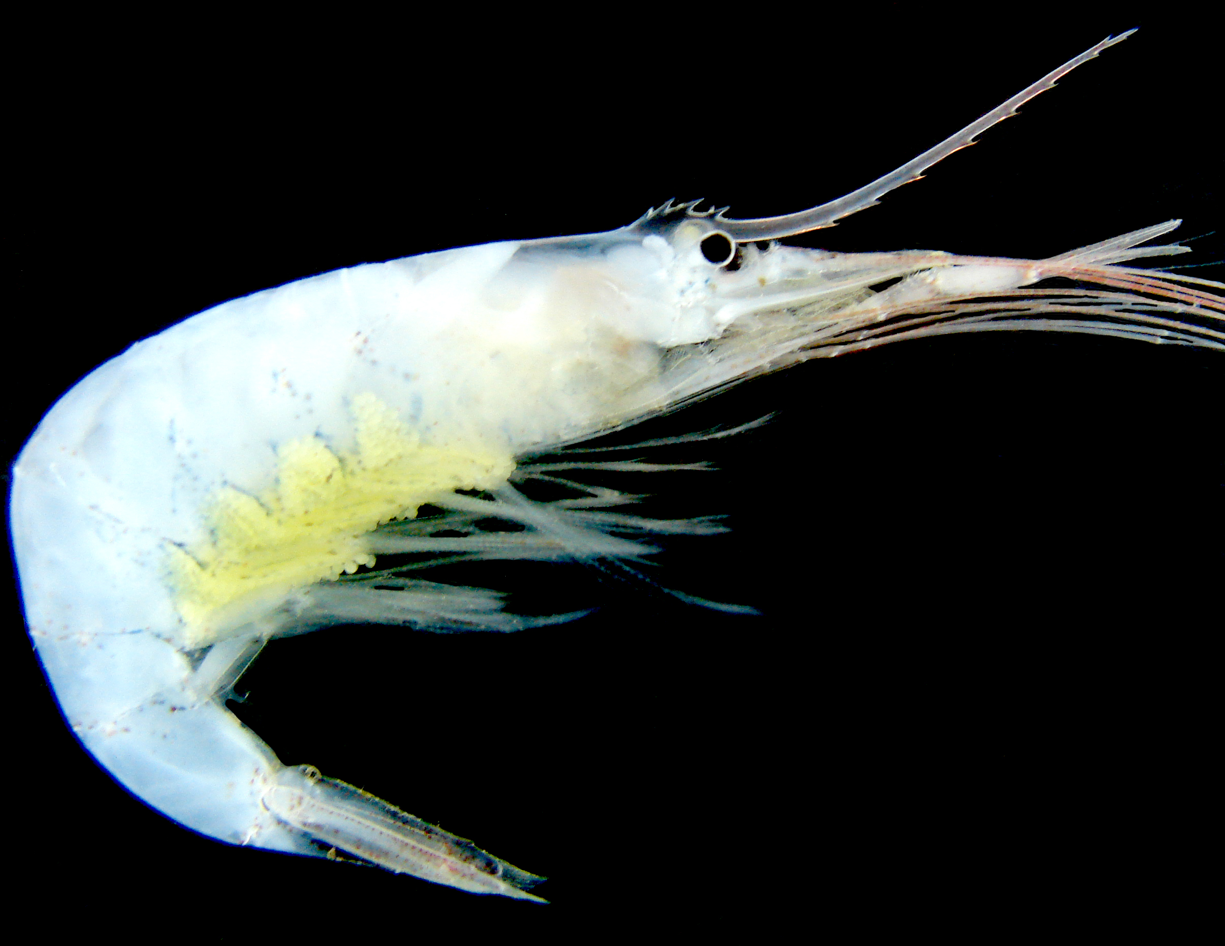 An adult caridean shrimp of the genus "Nematopalaemon".